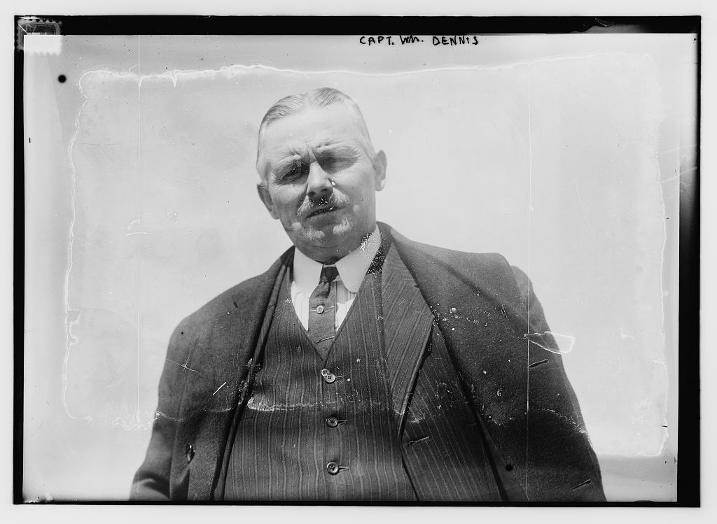 Captain William S. Dennis, selected in 1914 to skipper Alexander Smith Cochran's America's Cup defense candidate Vanitie (unverified) 5in x 7in or smaller glass negative Call Number: LC-B2- 3030-2